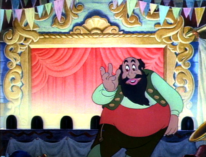 Screenshot of the theatrical trailer for Pinocchio (1940)